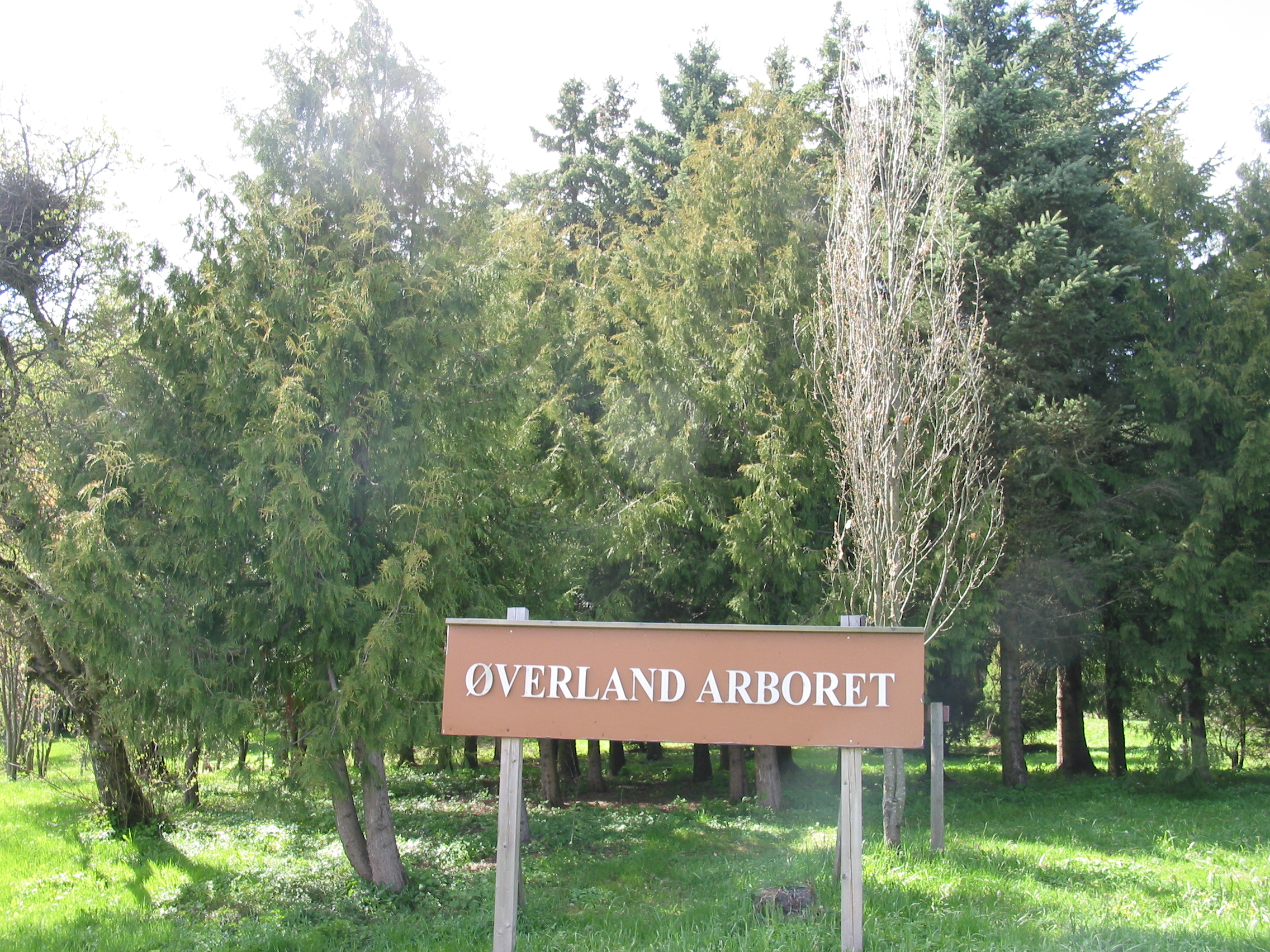 A welcome sign at Øverland Arboretum.